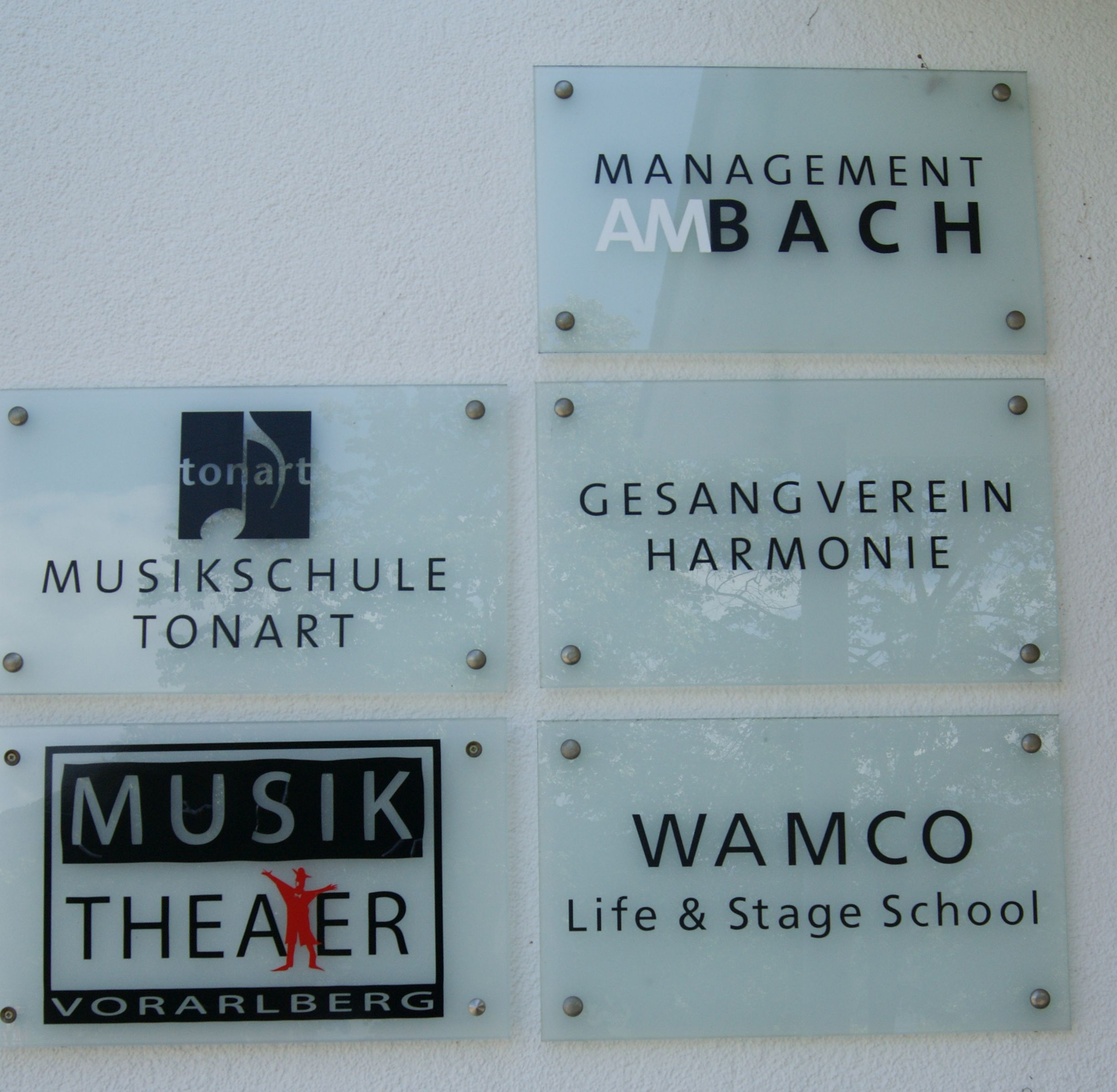 Part of the building complex "Kulturbühne AMBACH" (meaning: Culture Stage near the rivulet) in Götzis, Vorarlberg, Austria. On the picture you can see the info boards of Musikschule Tonart, Gesangsverein Harmonie, Musik Theater, WAMCO Live & Stage School